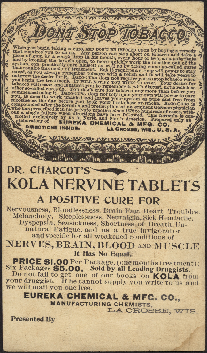 File name: 10_03_002006b Binder label: Tobacco / Cigarettes Title: Don't stop tobacco but take Baco=Curo, the only scientific cure for the tobacco habit. [back] Created/Published: Milwaukee : Wilmann Bros. Lith. Date issued: 1870 - 1900 (approximate) Physical description: 1 print : chromolithograph ; 9 x 16 cm. Genre: Advertising cards Subject: Dogs; Fences; Boys; Cats; Patent medicines Notes: Title from item. Statement of responsibility: Eureka Chemical & Mfg. Co. Collection: 19th Century American Trade Cards Location: Boston Public Library, Print Department Rights: No known restrictions.